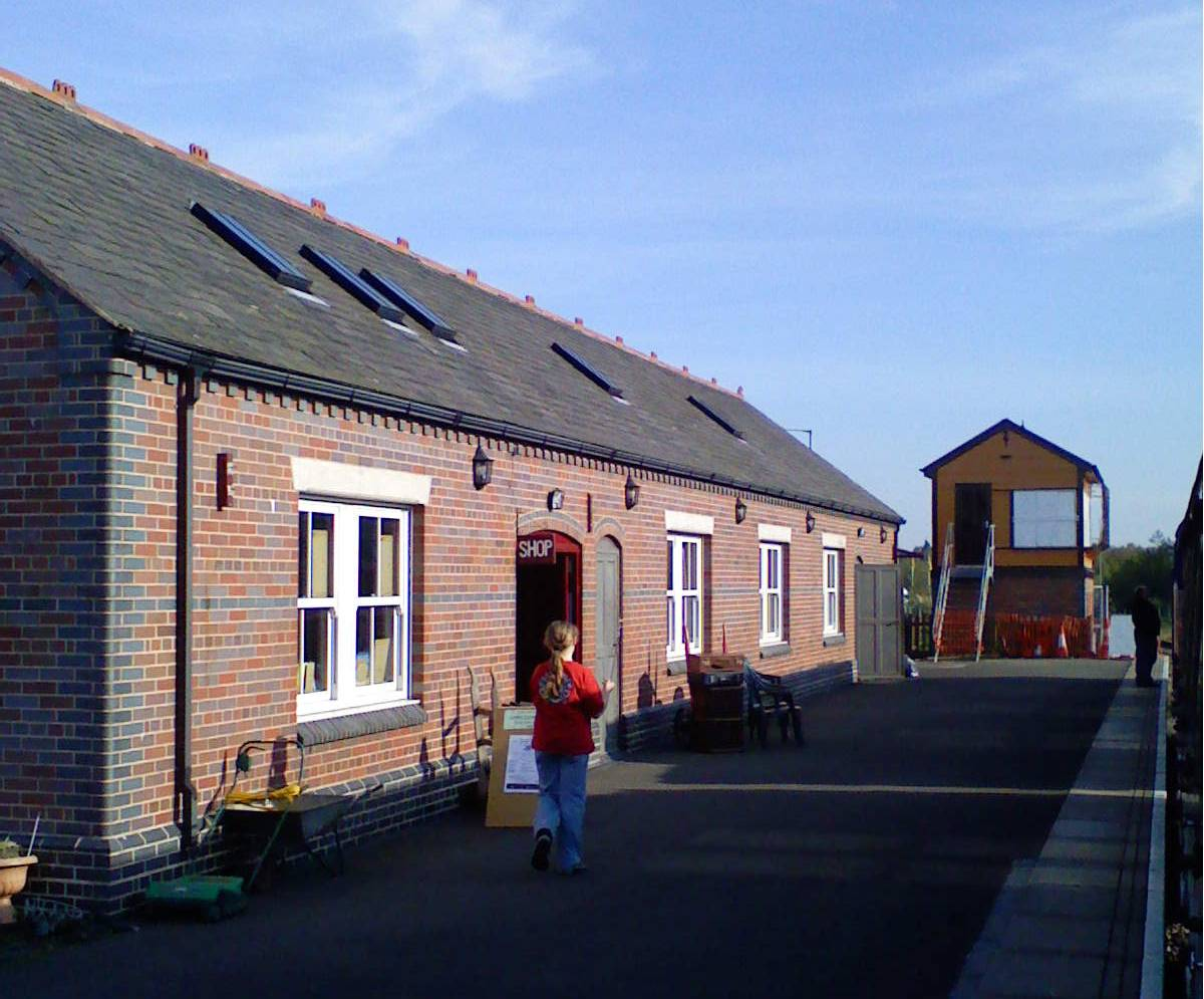 The Chasewater Heaths station on the Chasewater Railway, photographed by myself on 22 October 2007